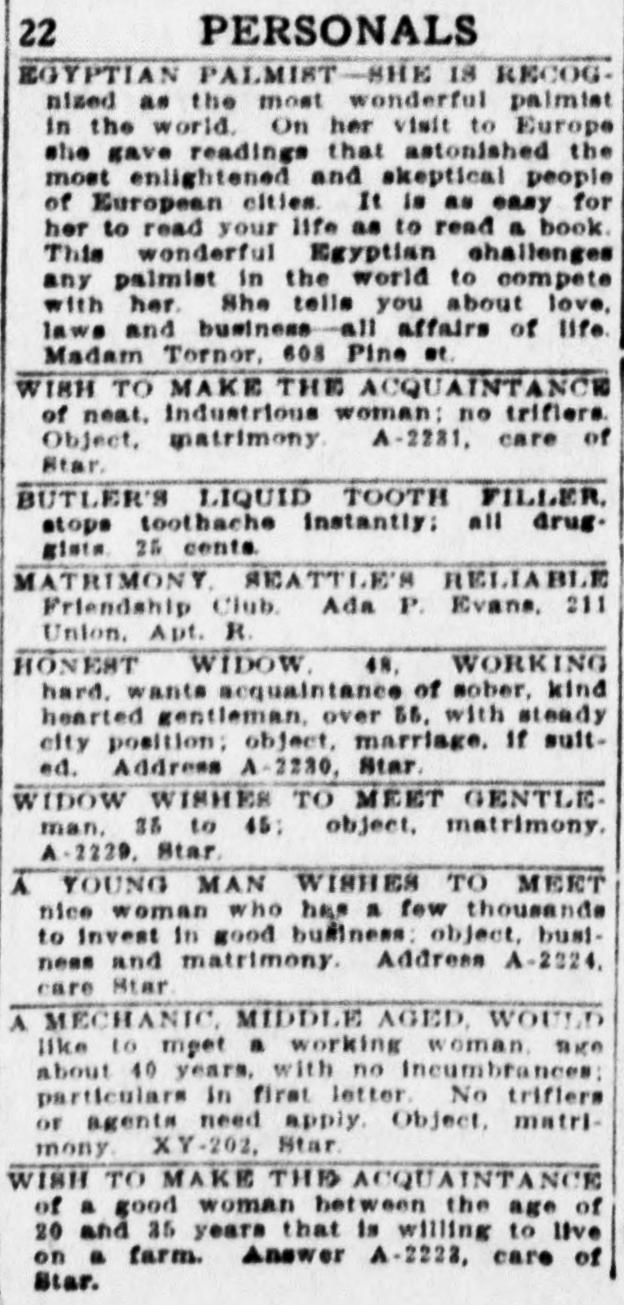 Part of the personals section of the January 13, 1914 issue of The Seattle Star. Page 6, #22.